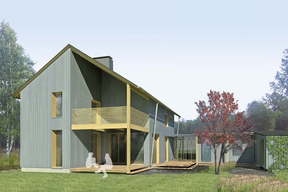 K3 Arkkityyppi, standardized low-energy one-family house design published by Finnish Cultural Foundation. Architect Kirsti Siven & Asko Takala arkkitehdit Oy.